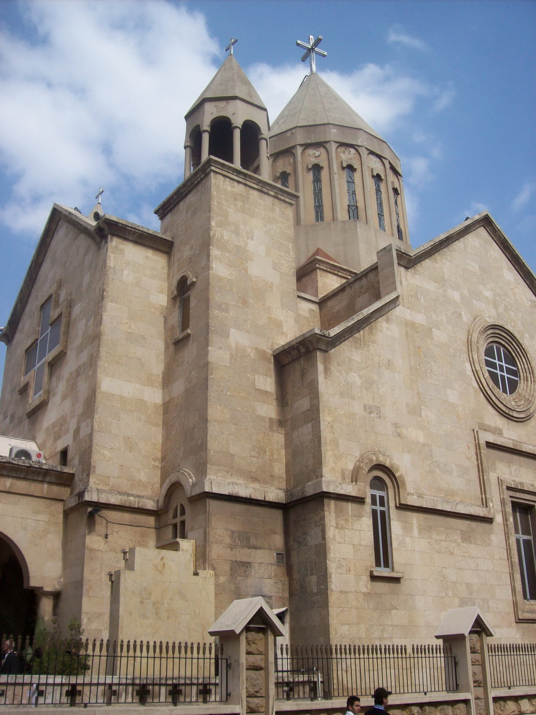 Holy Mother of God in Aleppo